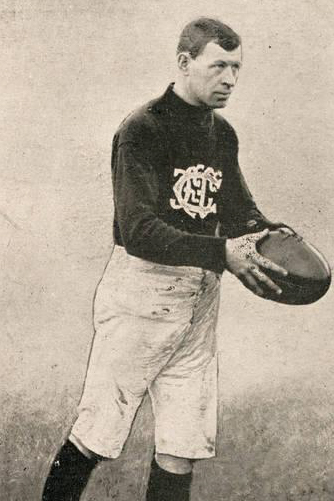 Photograph of Doug Fraser from the 1910 Weekly Times Victorian Footballer Postcard Series